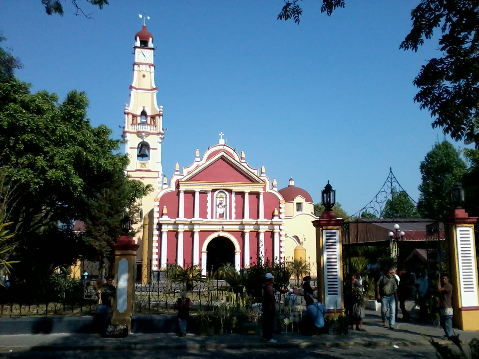 A house in the center of Coatepec, state of Veracruz.